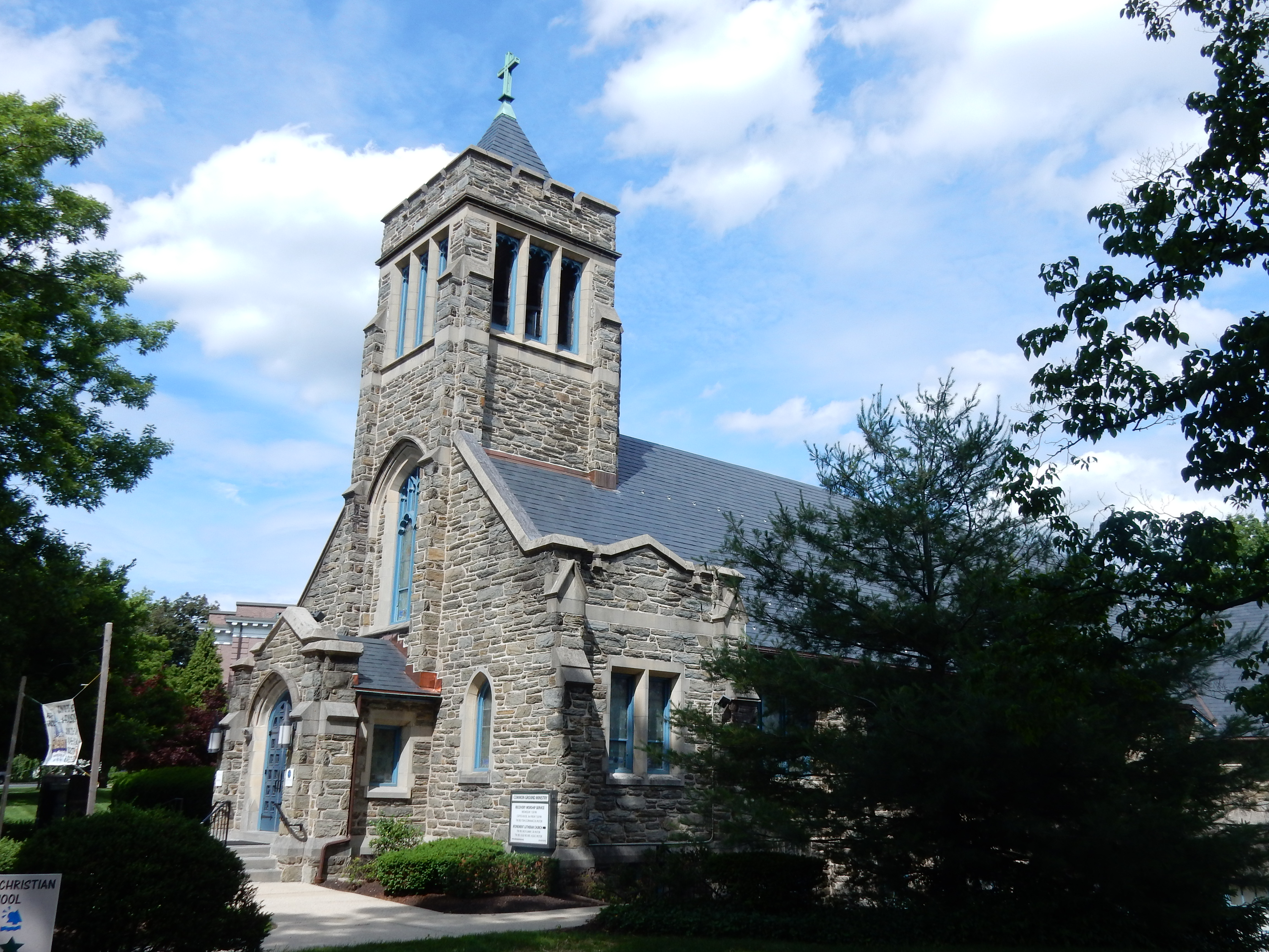 Atonement Lutheran Church on Wyomissing Blvd., Wyomissing PA.